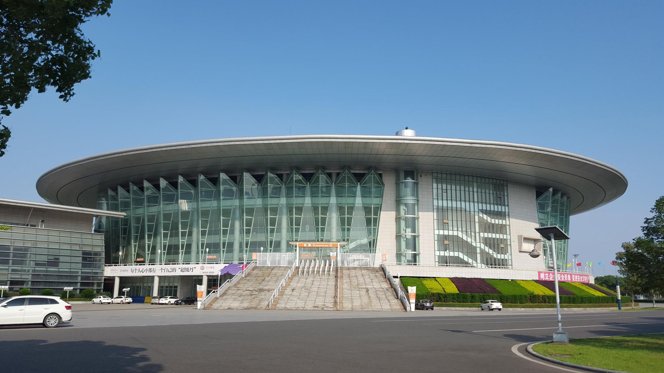 Wuhan Sport Centre